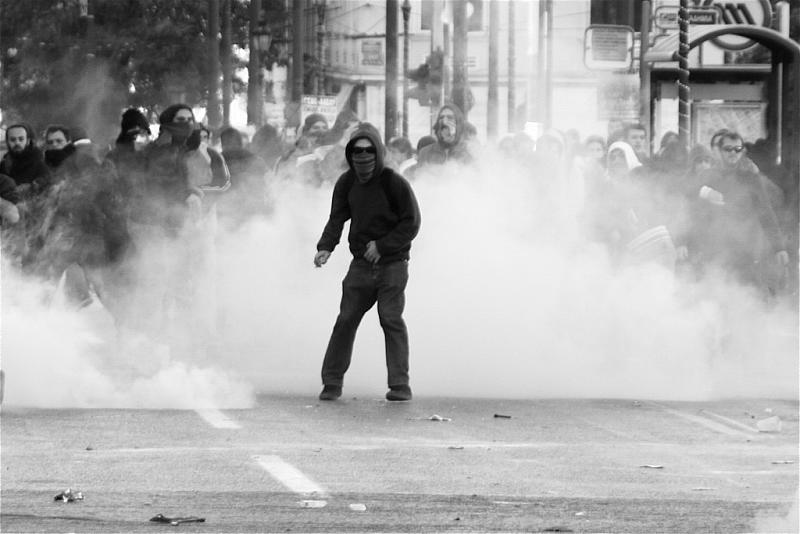 A lone rioter stands amidst a backdrop of smoke grenades and a mob.